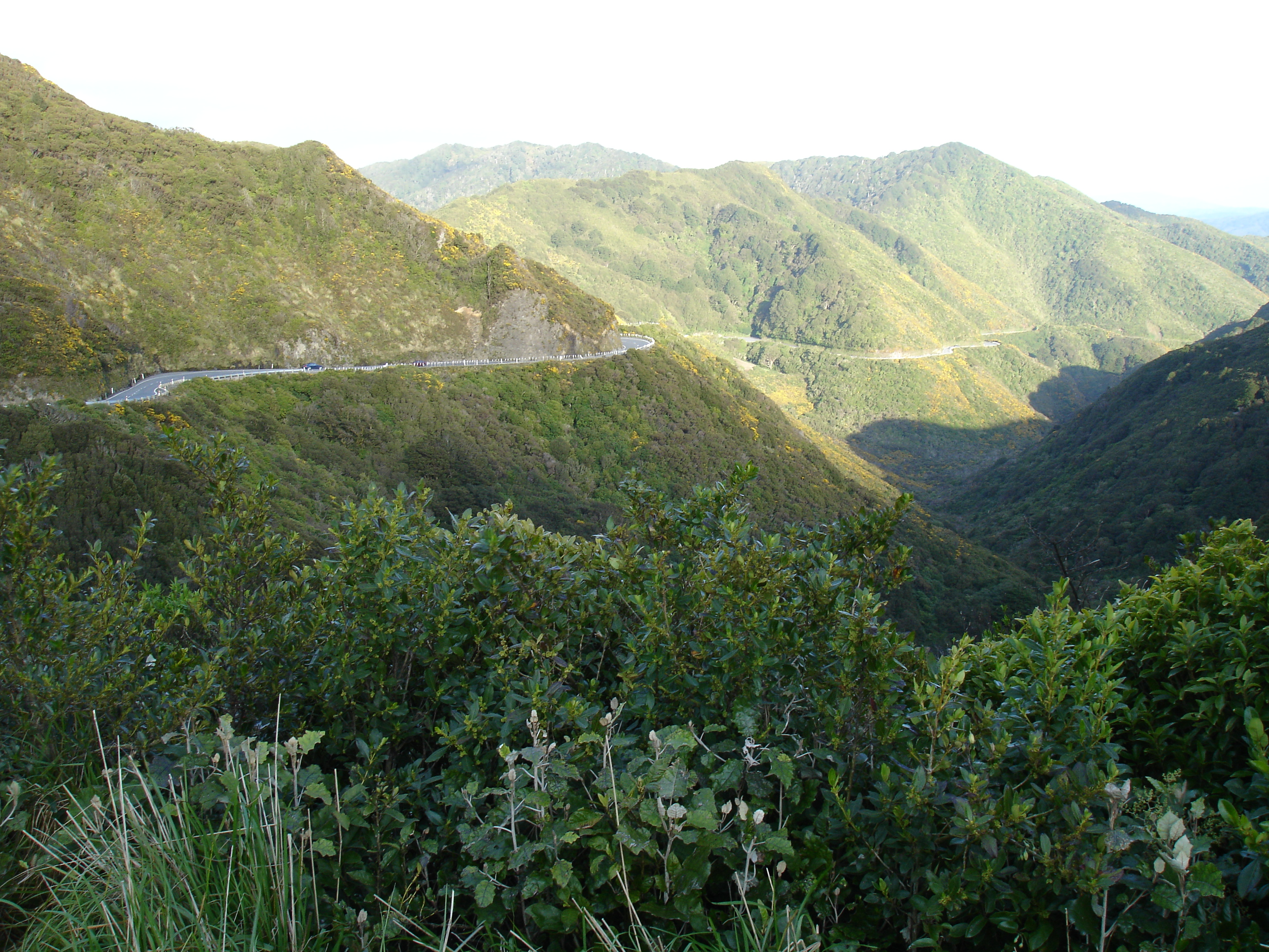 Looking down from the summit off Rimutaka Hill Road.